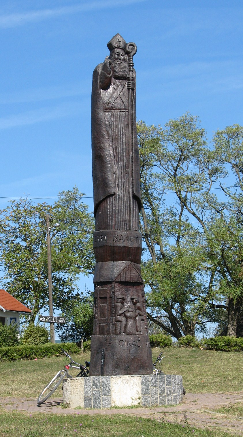 Statue of St. Martin, Martin Breg, Dugo Selo, Croatia